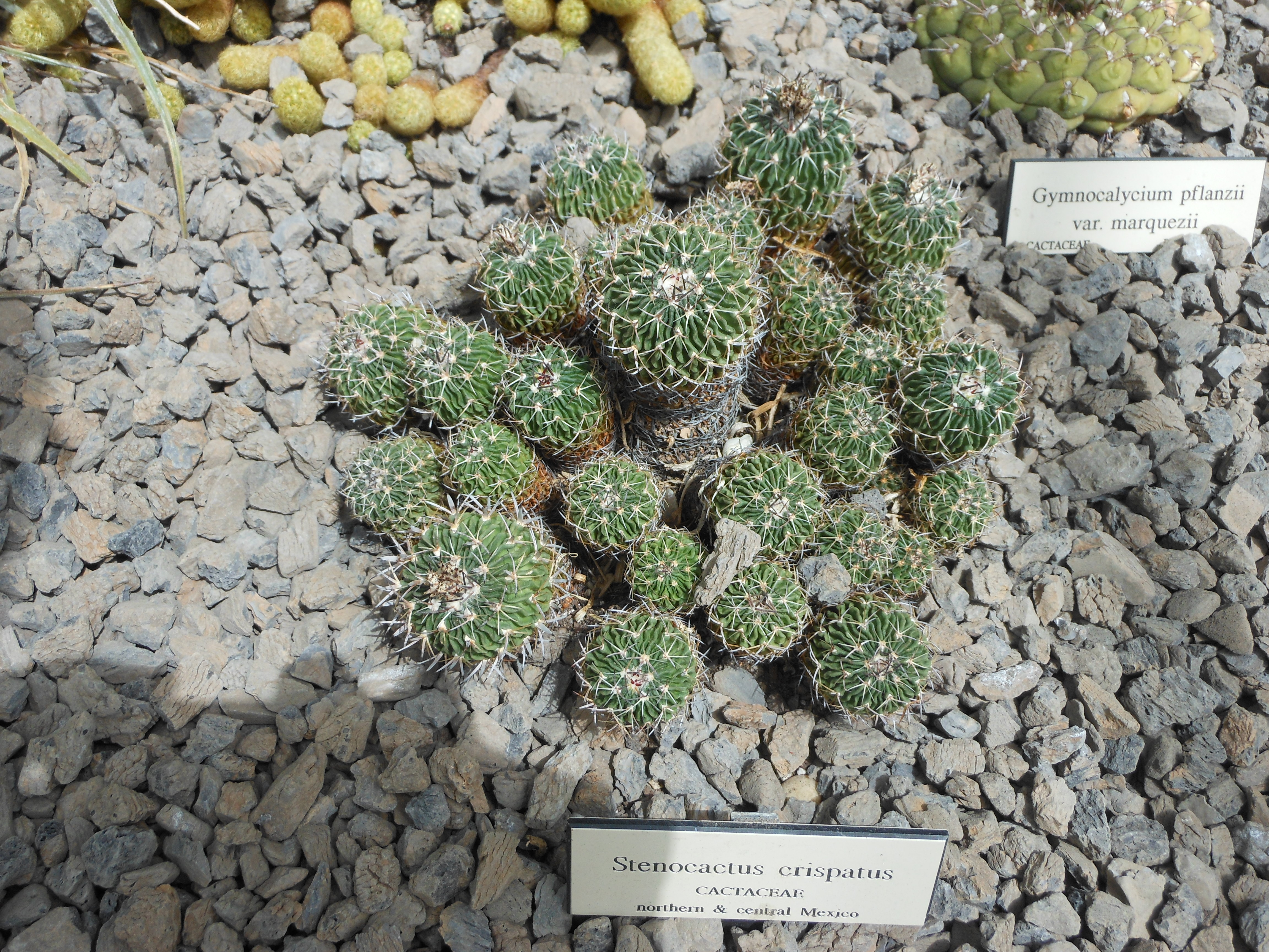 Stenocactus crispatus, a type of cactus